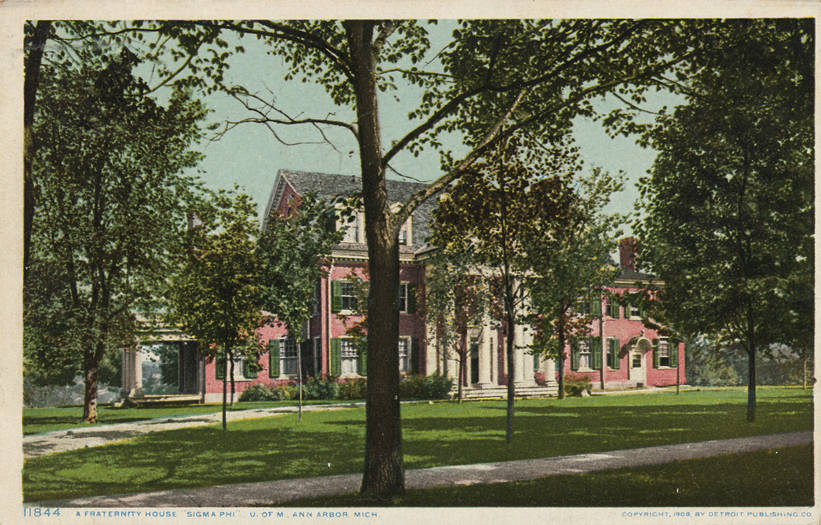 A Fraternity House, Sigma Phi, University of Michigan